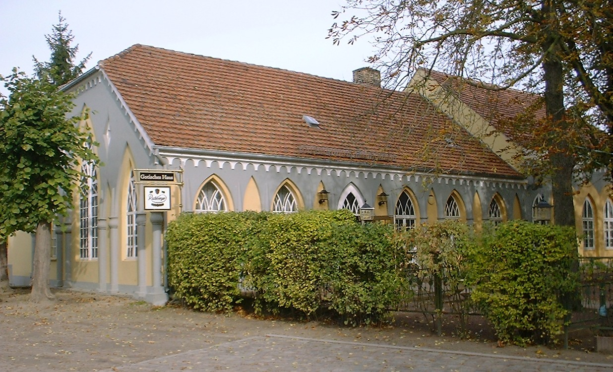 Gothic house (by David Gilly) in Paretz, Brandenburg, Germany